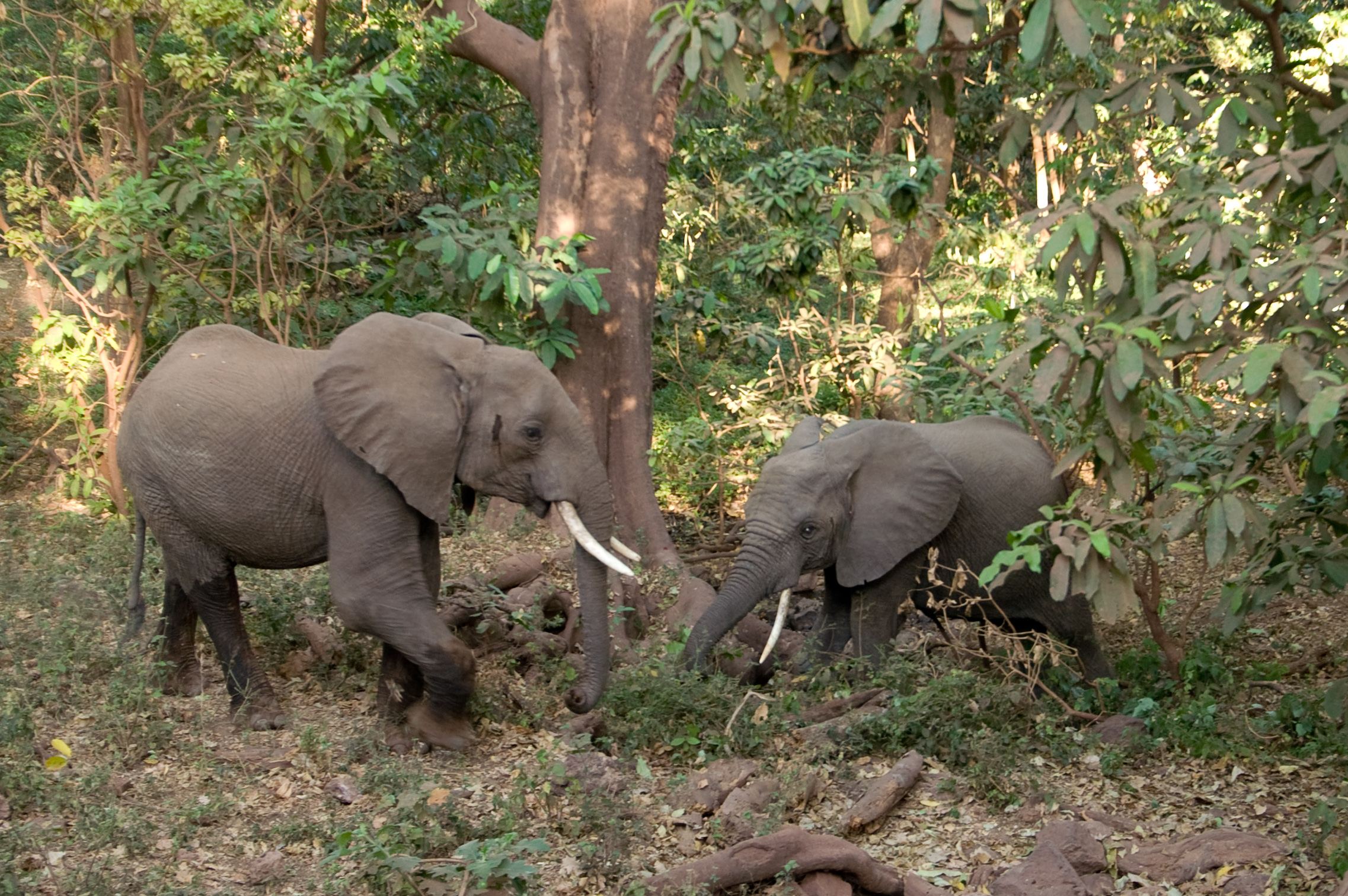 African Elephants, Lake Manyara national park, Tanzania.